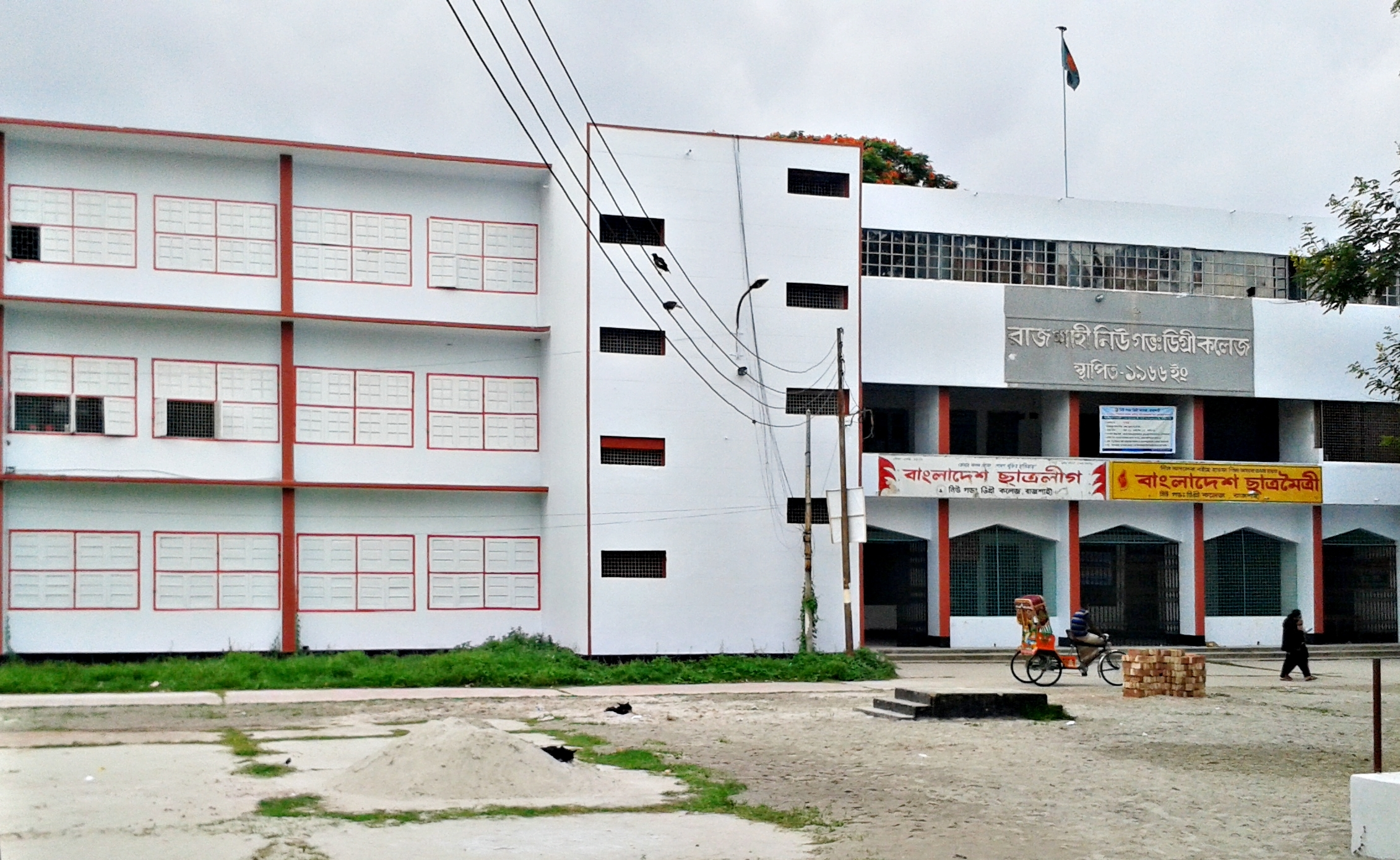 Rajshahai new govt degree college